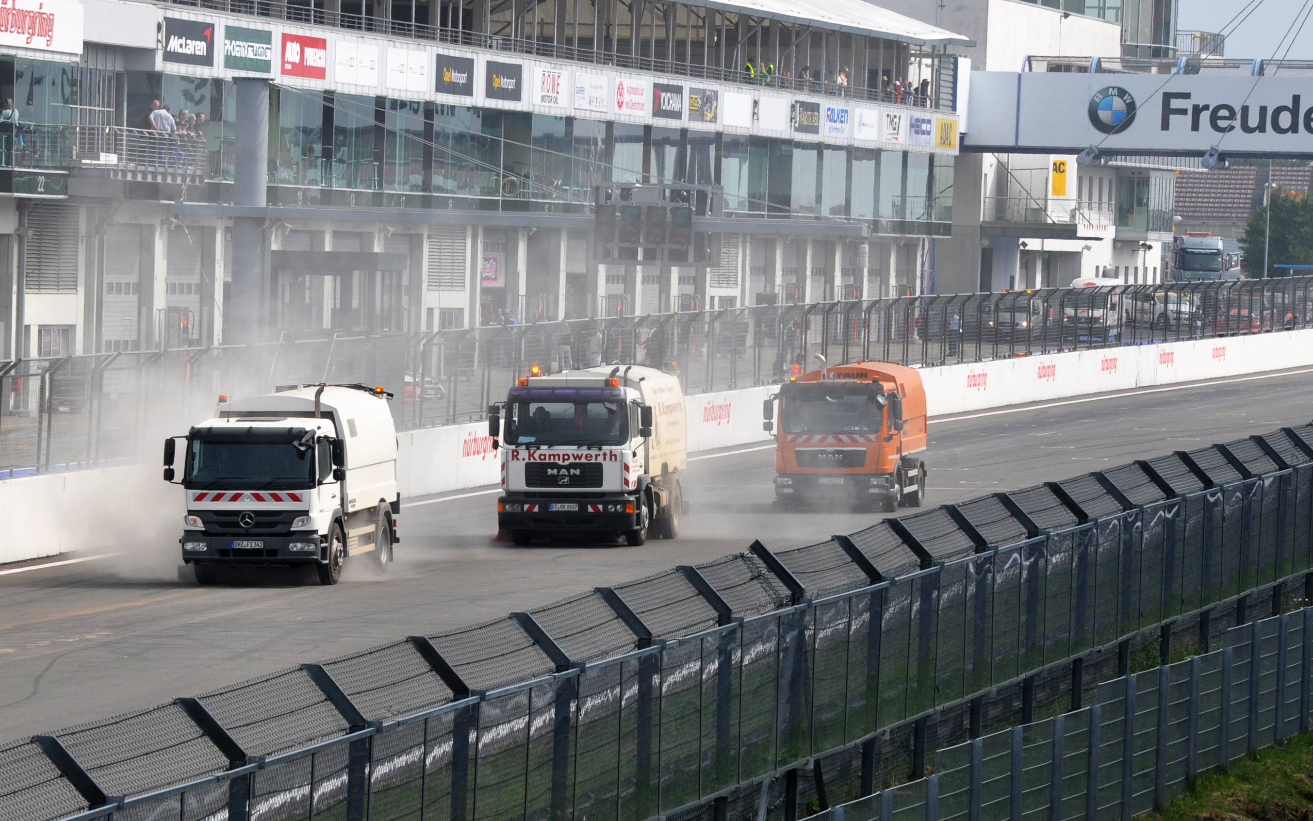 International ADAC Truck Racing Grand Prix, Nürburgring, Germany; MAN Cleaning trucks